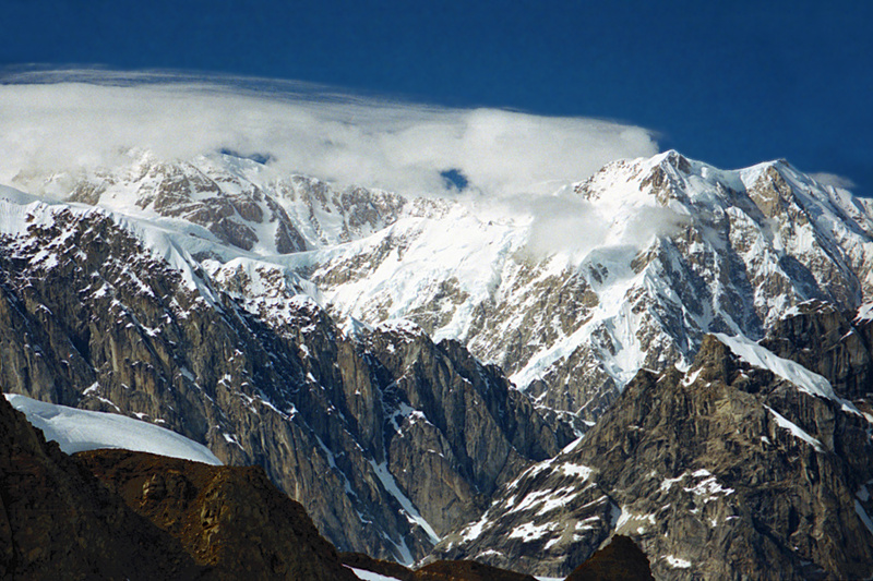 Denali National Park, Alaska, USA, the peaks of Denali from the top of Ruth Glacier, at a place known as the Ruth Amphitheater